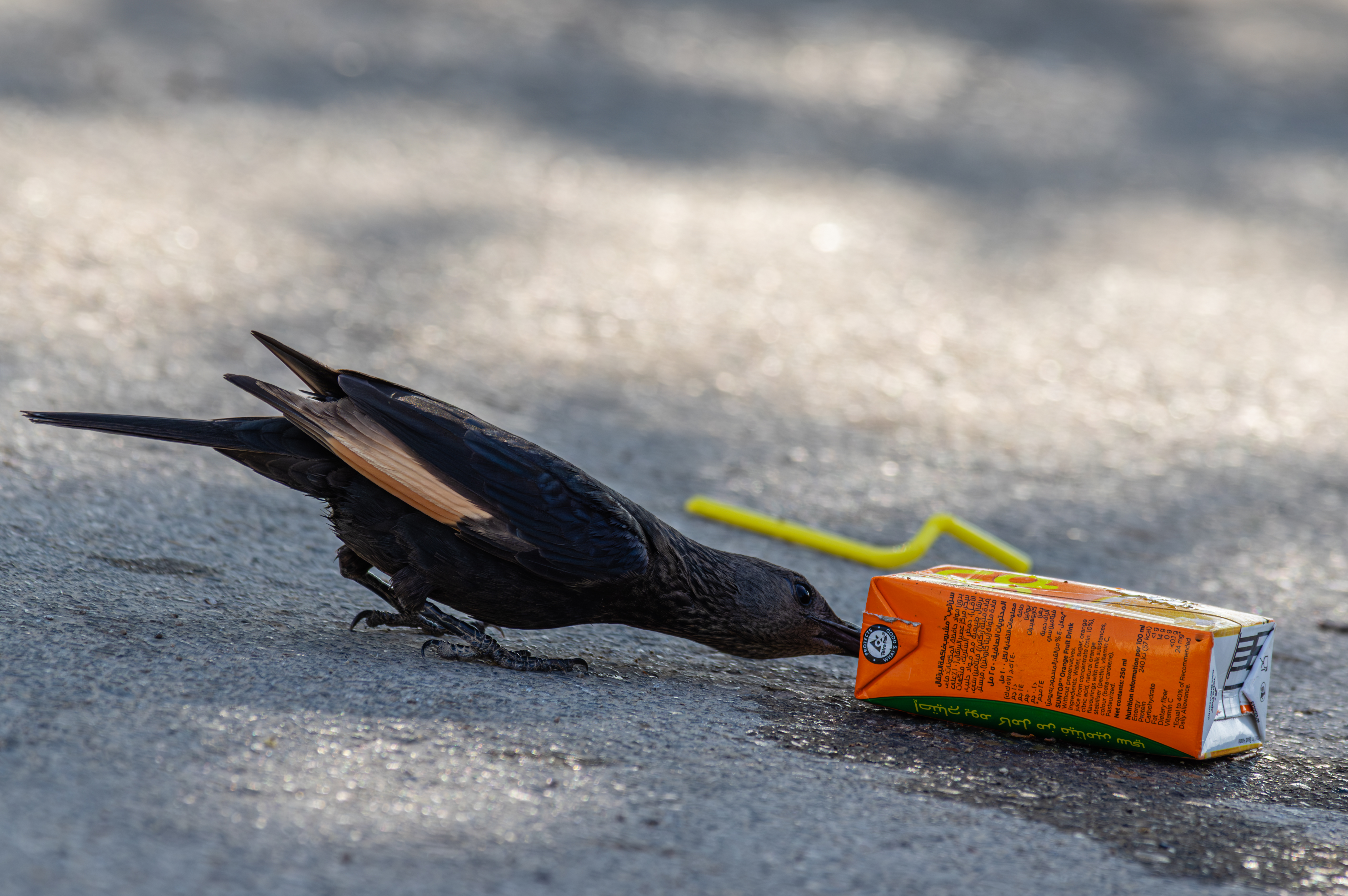 Tristram's starling (Onychognathus tristramii), Salalah, Oman